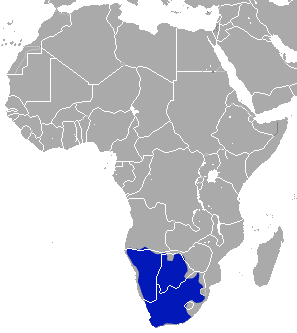 Yellow Mongoose (Cynictis penicillata) range